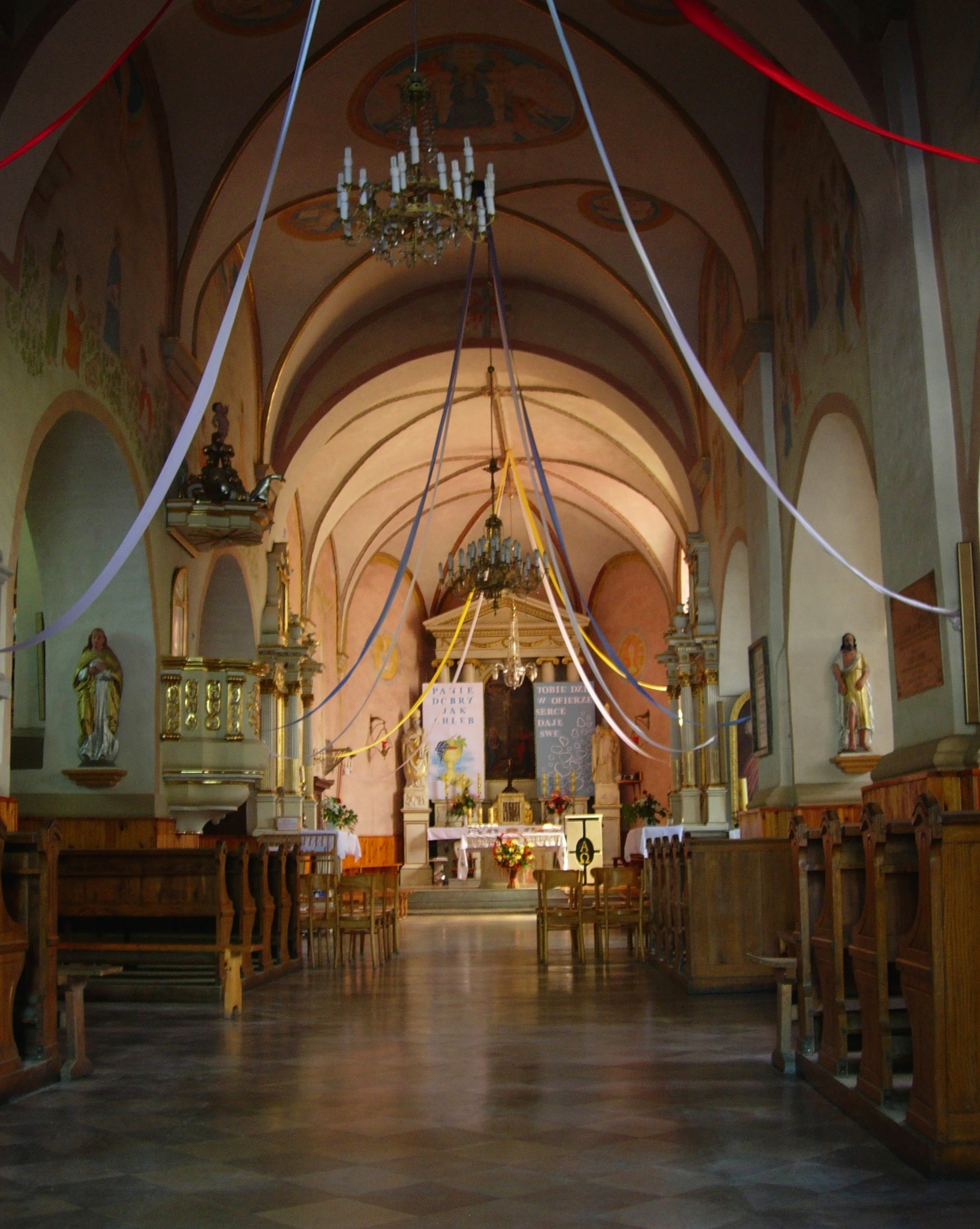 Saint Ladislaus Church in Kunów, Poland